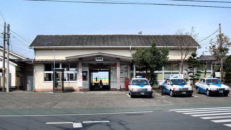 Arisa Station, Yatsushiro, Kumamoto, Japan